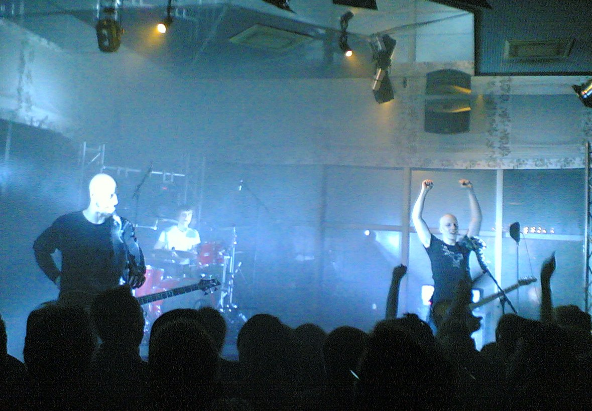 Apulanta in concert on December 9, 2005 in Hotel Rosendahl, Tampere. Photographed by Teemu Mäki on a Nokia 6680 camera phone.